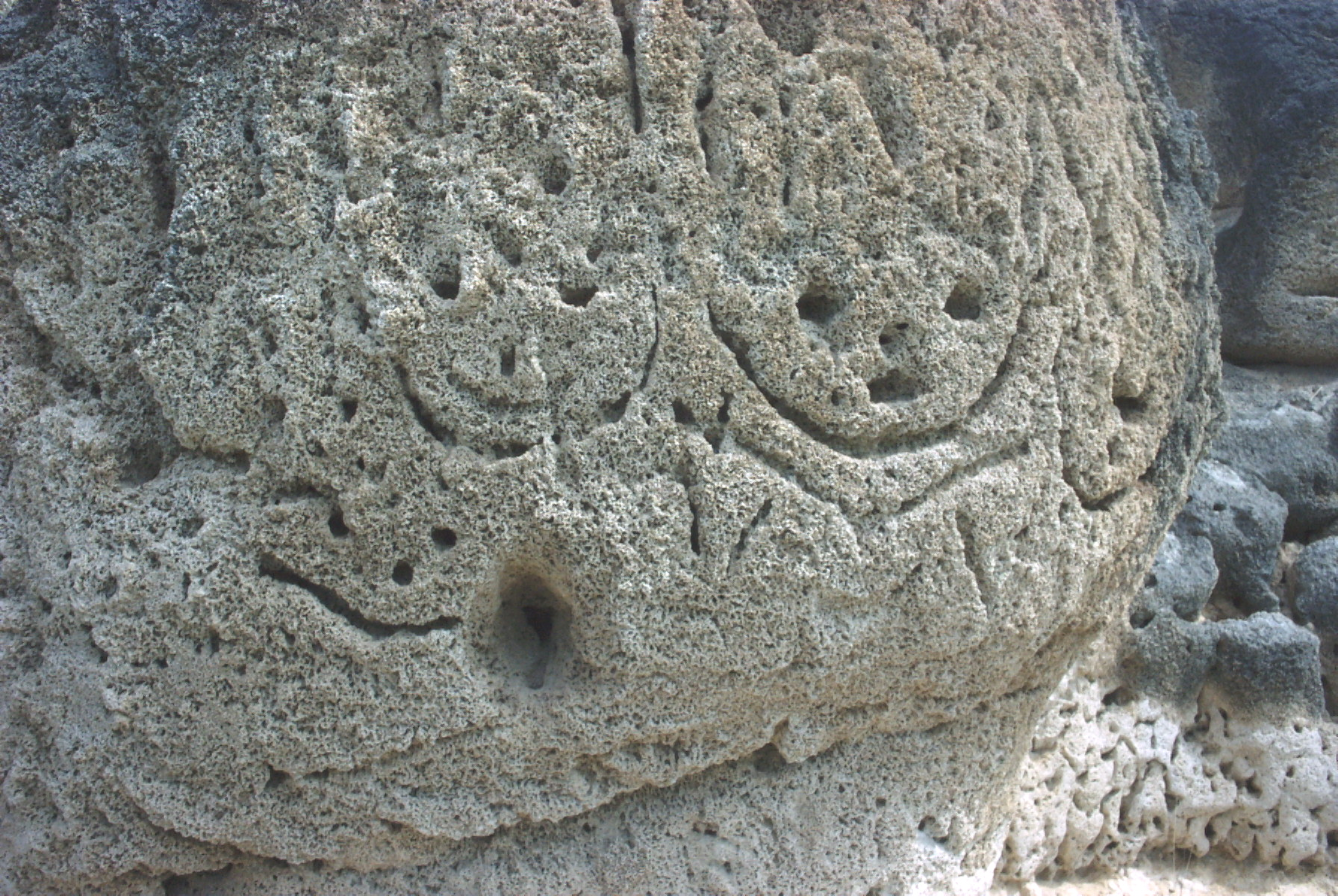 "Las Caritas": Taino inscriptions in rock formations near Lake Enriquillo, Dominican Republic - detail 01